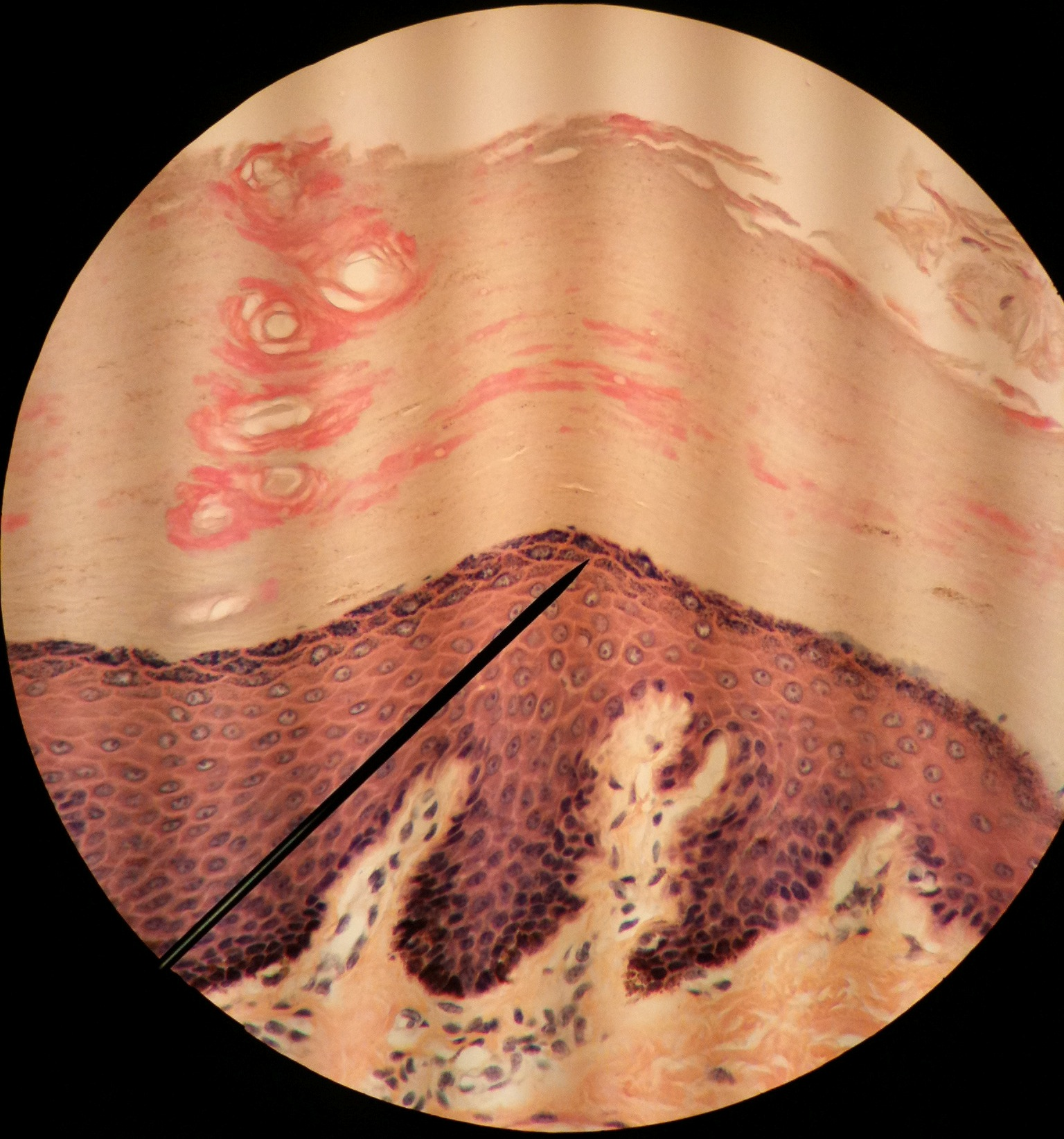 A good starting point is to identify the main layers (epidermis, dermis and hypodermis) of the skin at low magnification.